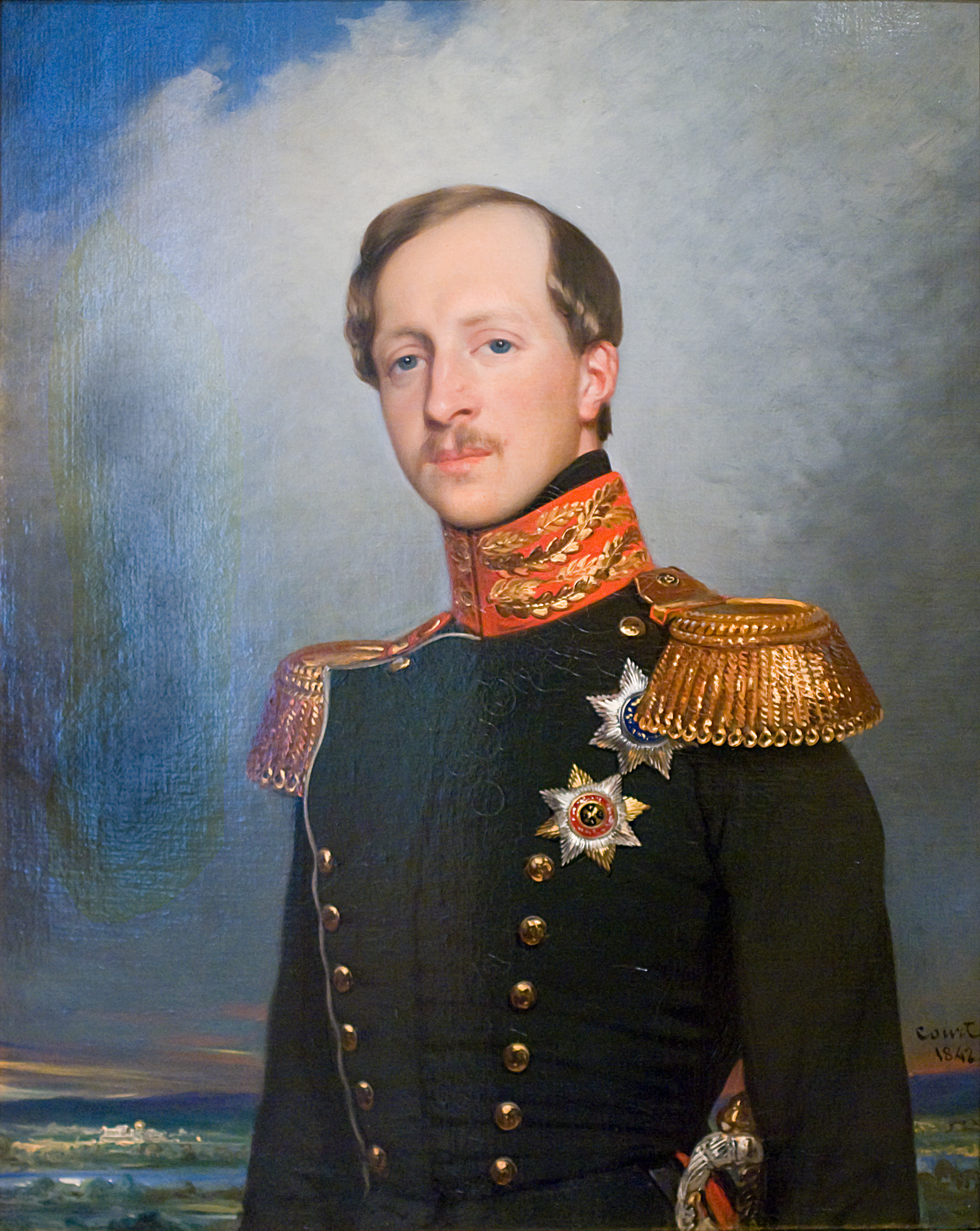 Portrait of prince Peter of Oldenburg in uniform of the Preobrazhensky L-G Regiment